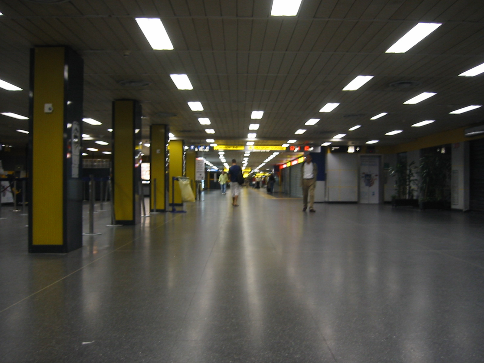 Milan's Linate airport at about 4 am.